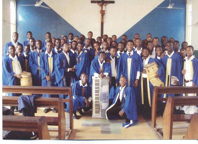 Choir